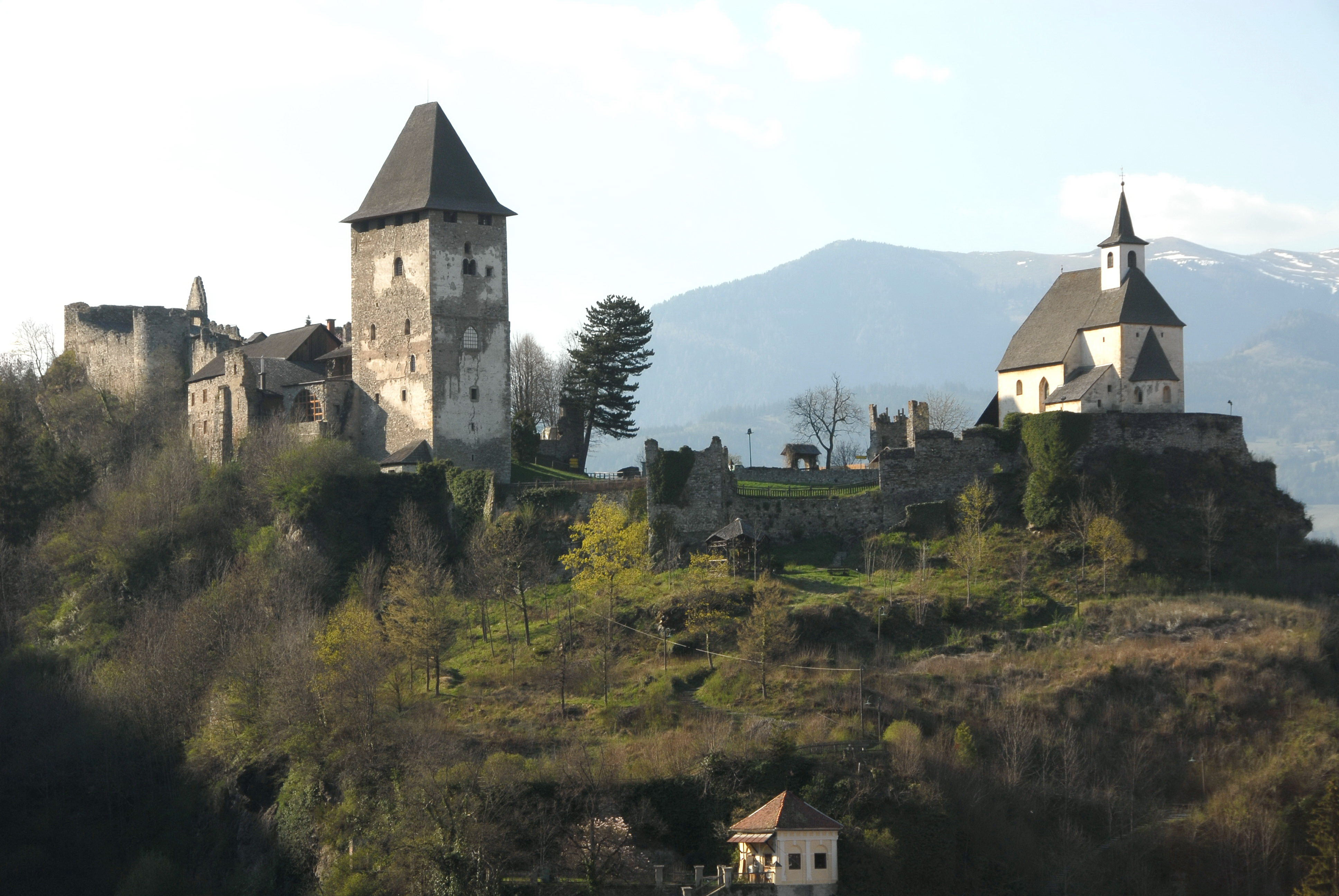 Castle ruin Petersberg (Peter´s mountain) with the 28 m high keep (sheltering the city museum) and Peter´s church, municipality Friesach, district Sankt Veit, Carinthia, Austria, EU